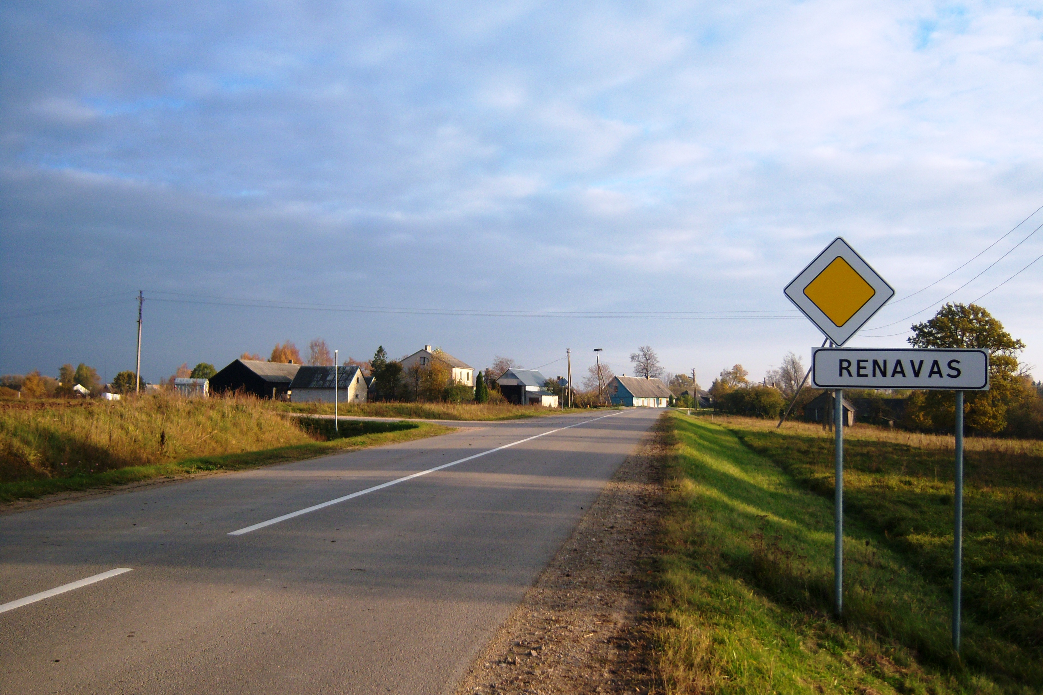 Road KK207, Renavas, Lithuania